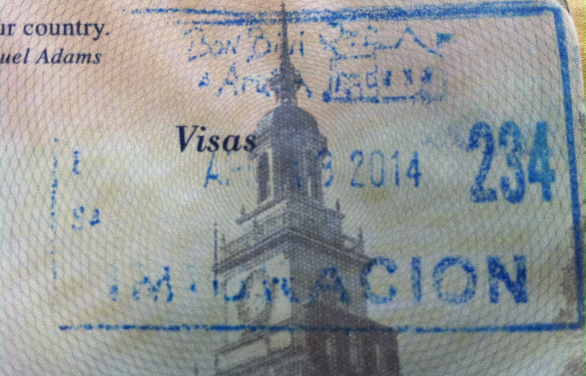 passport entry stamp for Aruba in a United States passport